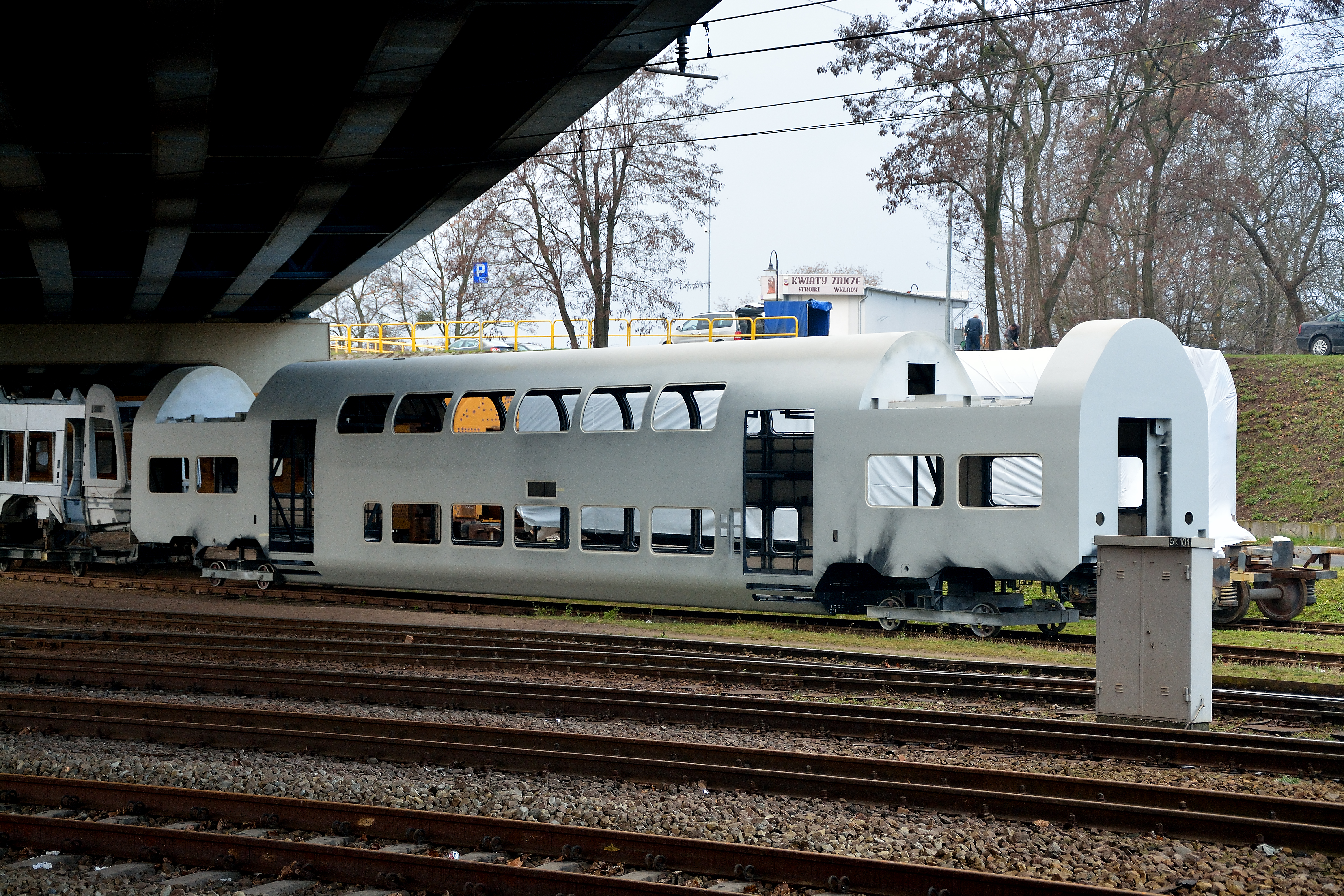 Pesa Sundeck under construction